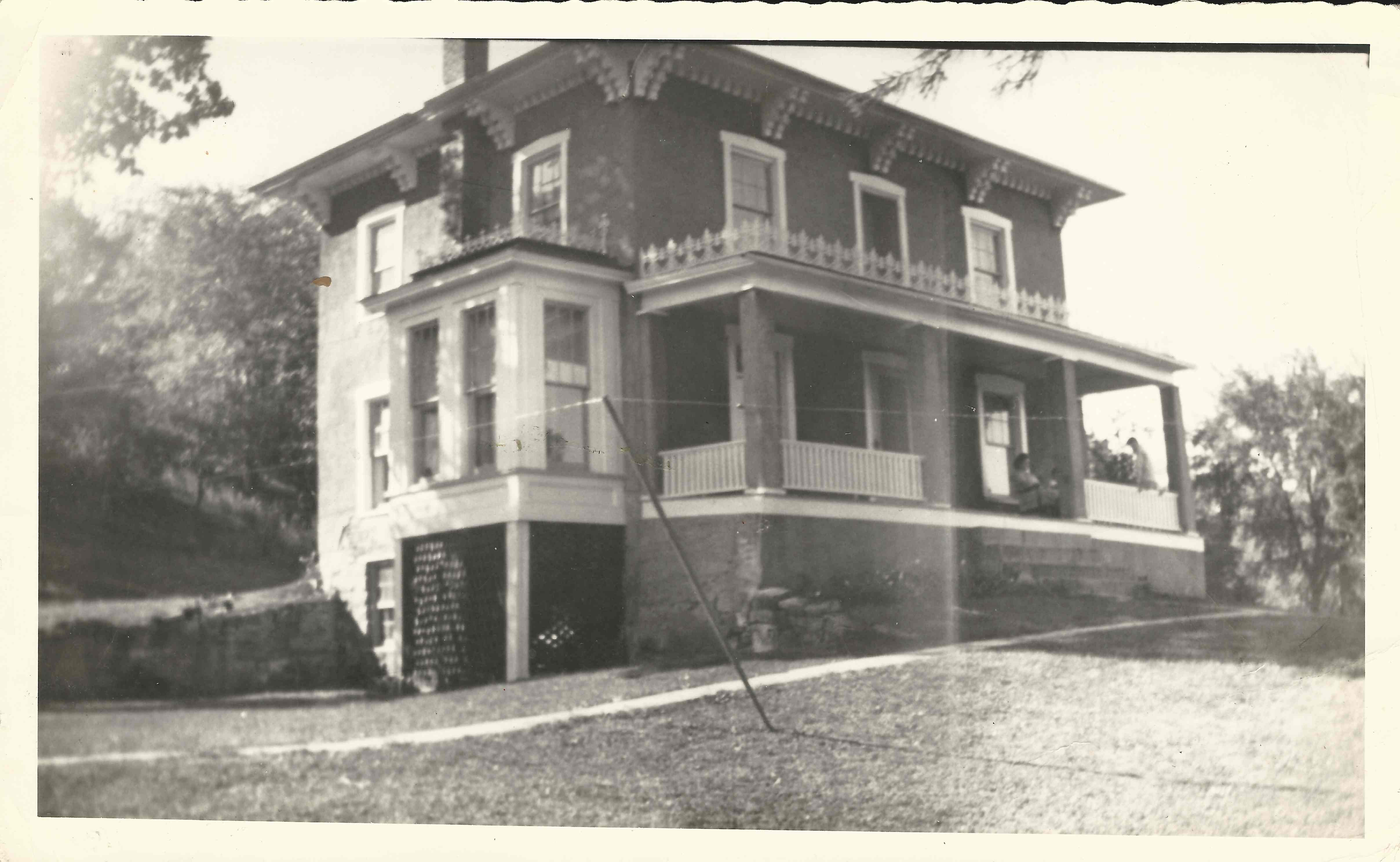 Home after the brick was covered but with the original porch.